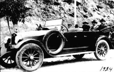 "Konstantin Tretiakoff (left, bearded), A.C. Pacheco e Silva (center) and his brother, V. Pacheco e Silva (right, an engineer), aboard a convertible Hudson 1921 on their way to Santos, a beach 60 km away from Sao Paulo, for a holiday trip (1924)".